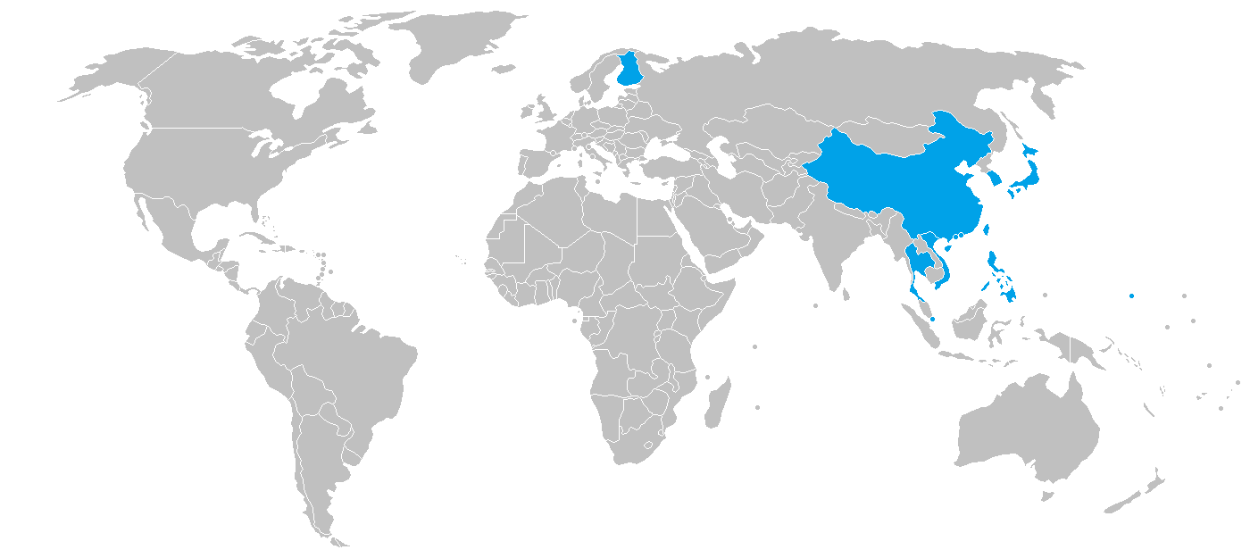 Fukuoka airport passenger destinations